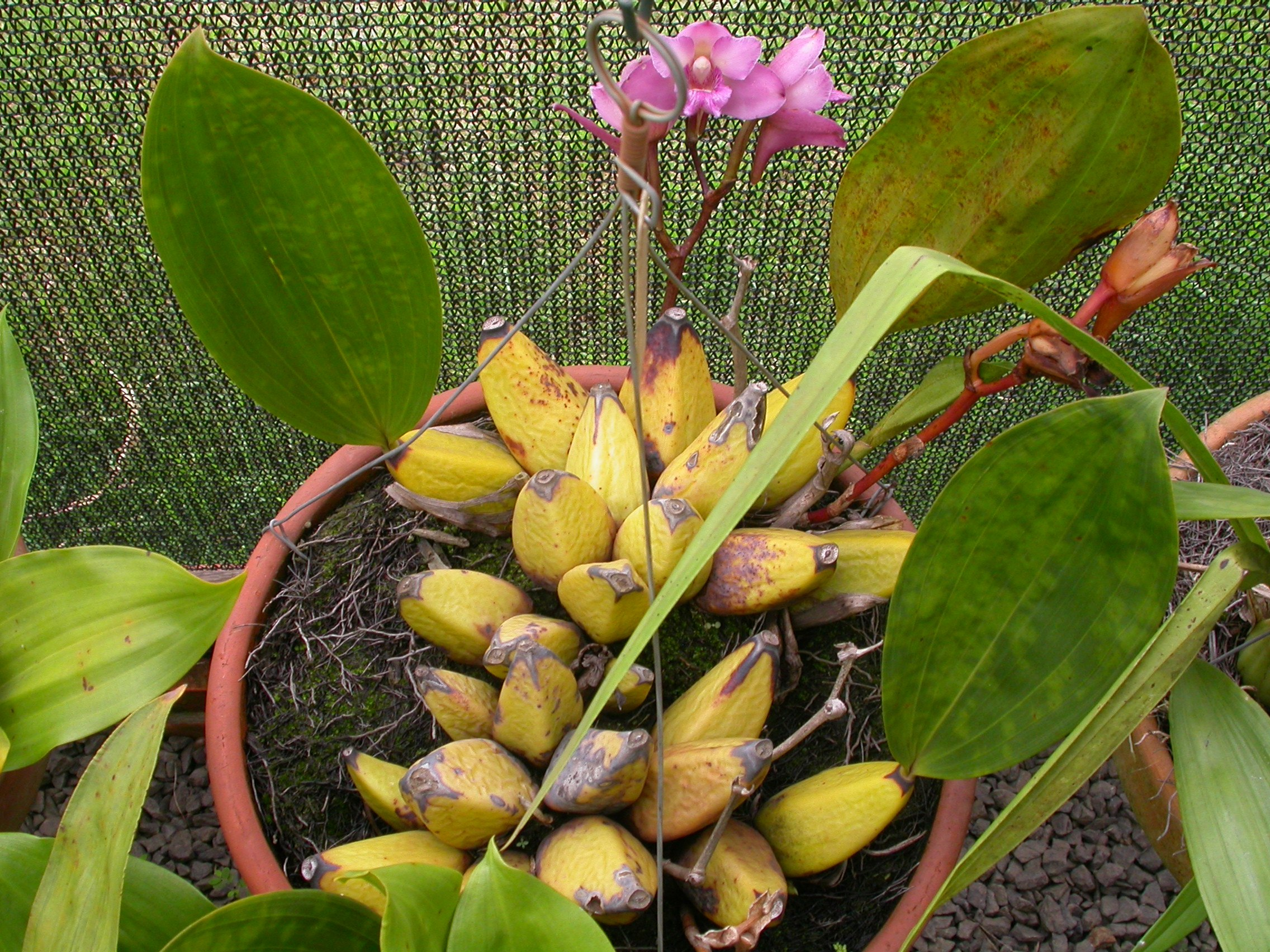 Bifrenaria tyrianthina plant